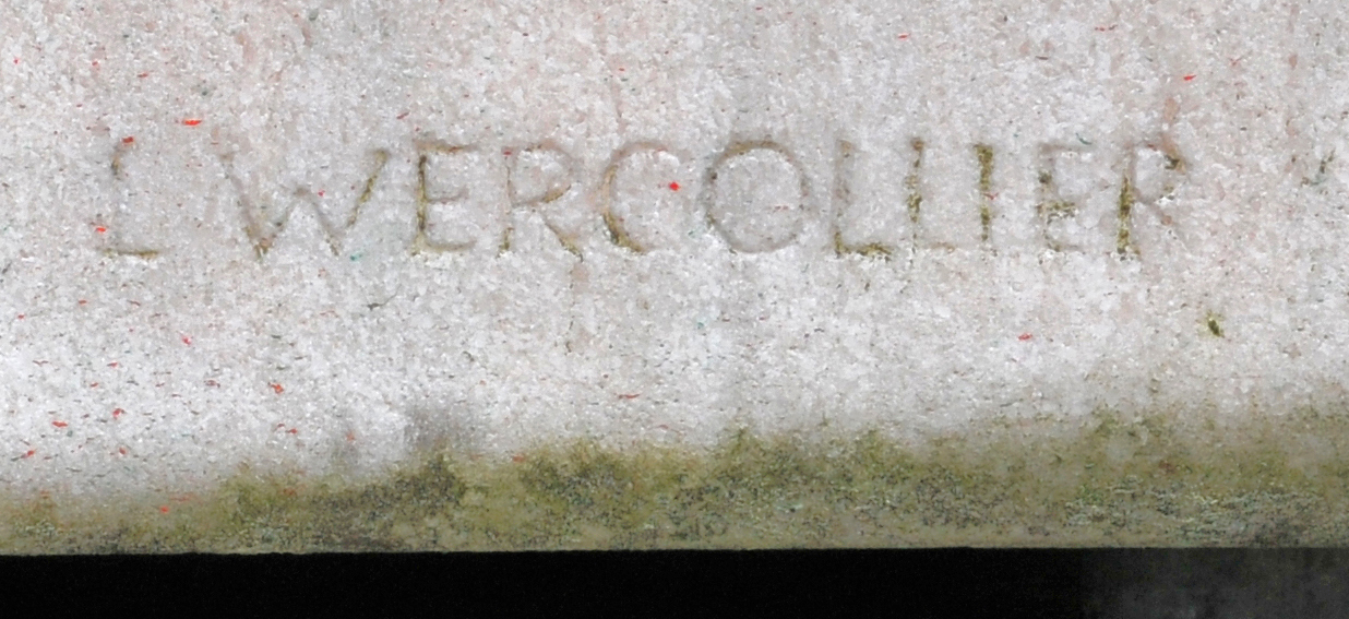 Signature of Lucien Wercollier on the sculpture entitled L'accord.